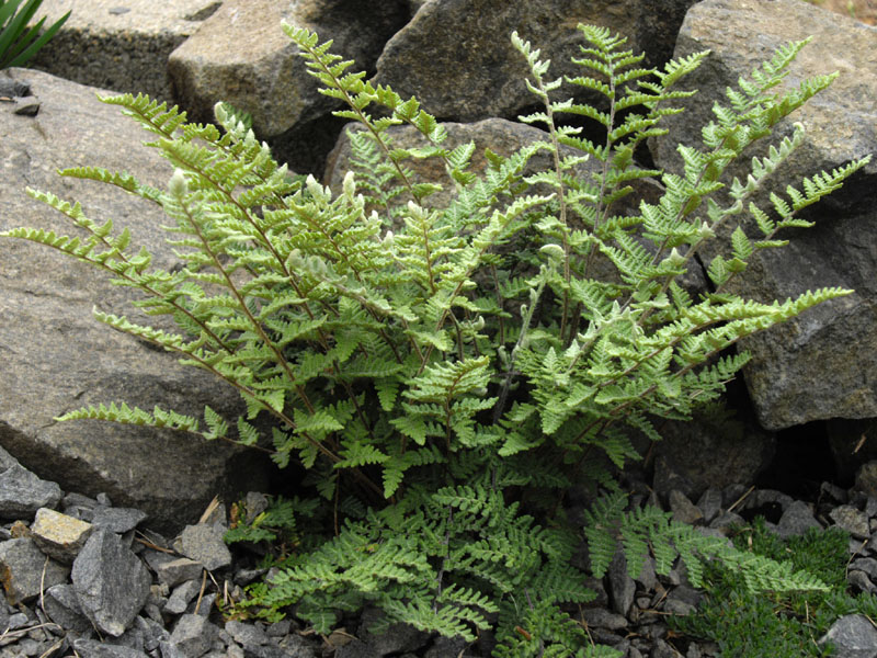 Cheilanthes lanosa